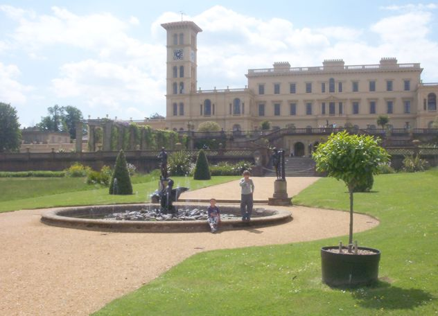 Osborne House, East Cowes, Ilha de Wight, Inglaterra